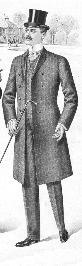 The Victorians and some Edwardians wore frock coat suits like this in check and tweed much as we would a tweed lounge suit.